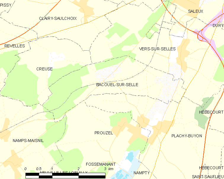 Map of French municipality Bacouel-sur-Selle